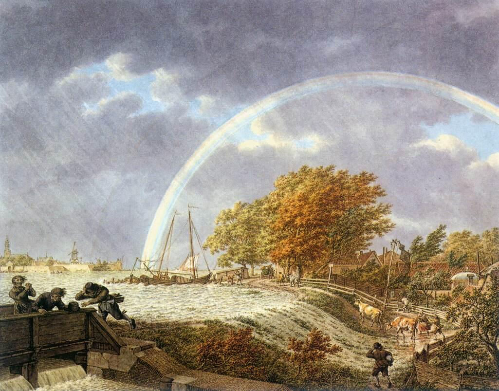 Part of the series {name }.